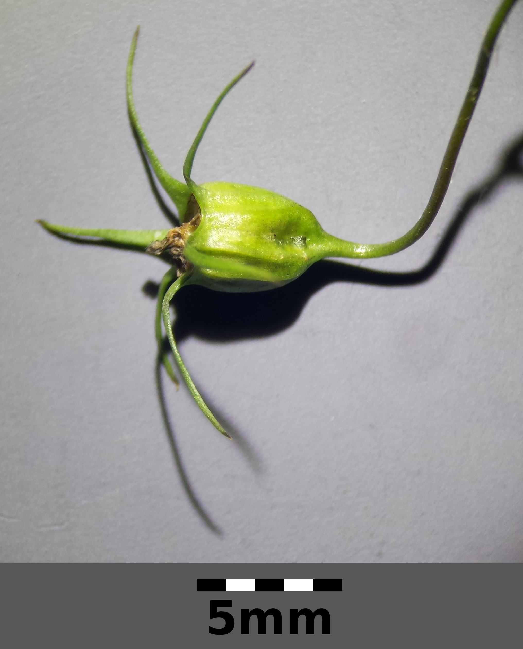 Nutant fruit, holes for seeds at the bottom Taxonym: Campanula rotundifolia ss Fischer et al. EfÖLS 2008 ISBN 978-3-85474-187-9 Location: Kottingnondorf, Groß-Gerungs, district Zwettl, Lower Austria - ca. 750 m a.s.l. Habitat: wayside